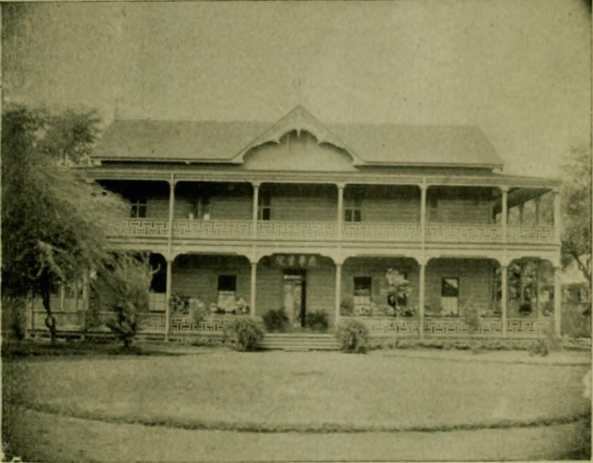 Photo of Chinese Hospital in Honolulu, Hawaii.